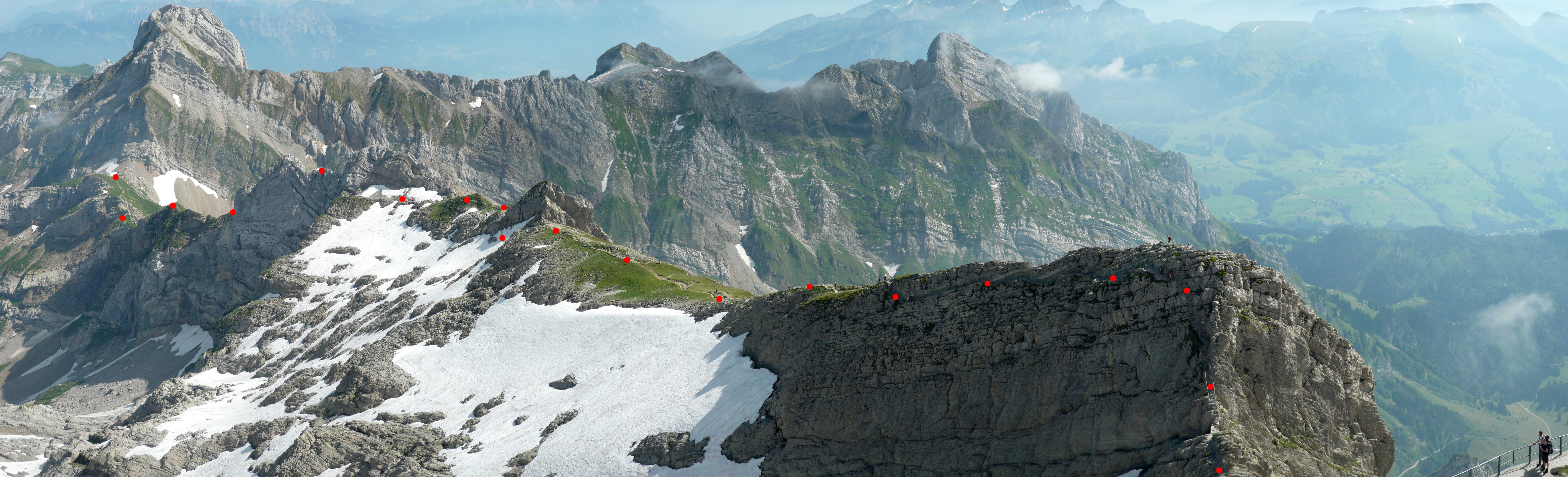 Lisengrat in Alpstein mountains, Switzerland